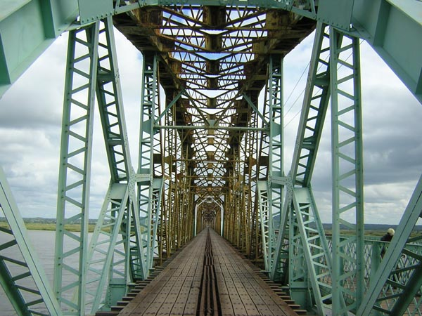 Dona Ana Bridge in Sena, Mozambique